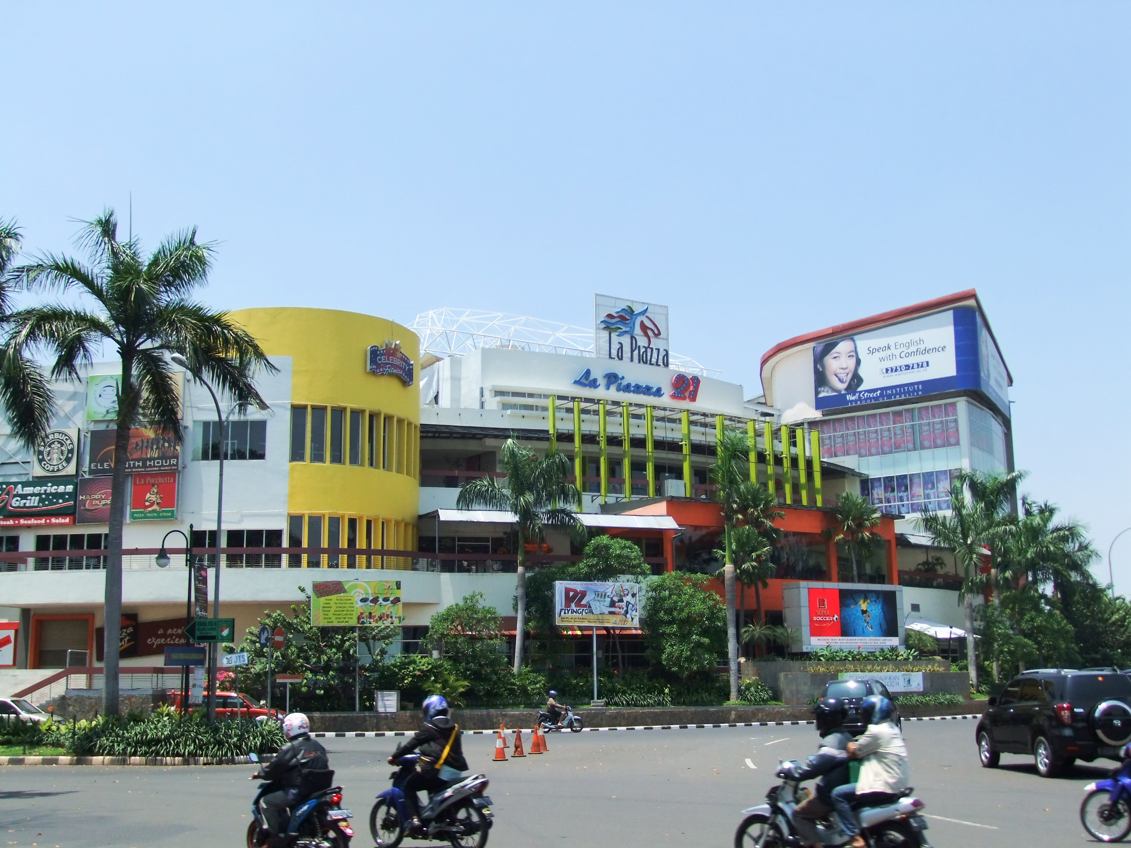 La Piazza 21 Kelapa Gading Jakarta.